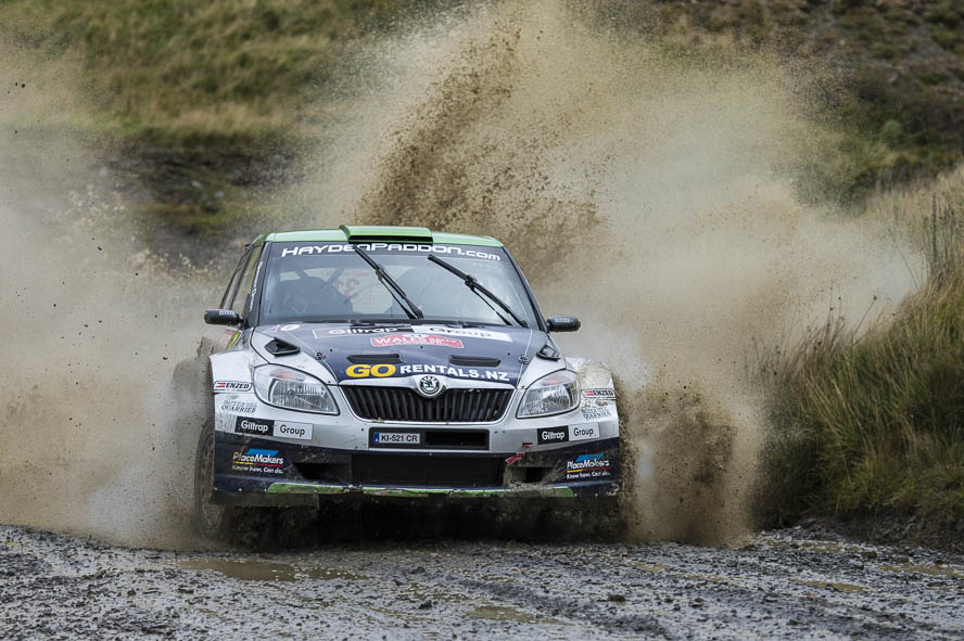 Wales Rally Great Britain 2012 Hafren Sweet Lamb 1,Hayden Paddon,John Kennard,Motorsport,Rally,Rallye,SS2,Skoda Fabia S2000,WP2,WRC,Wales Rally GB